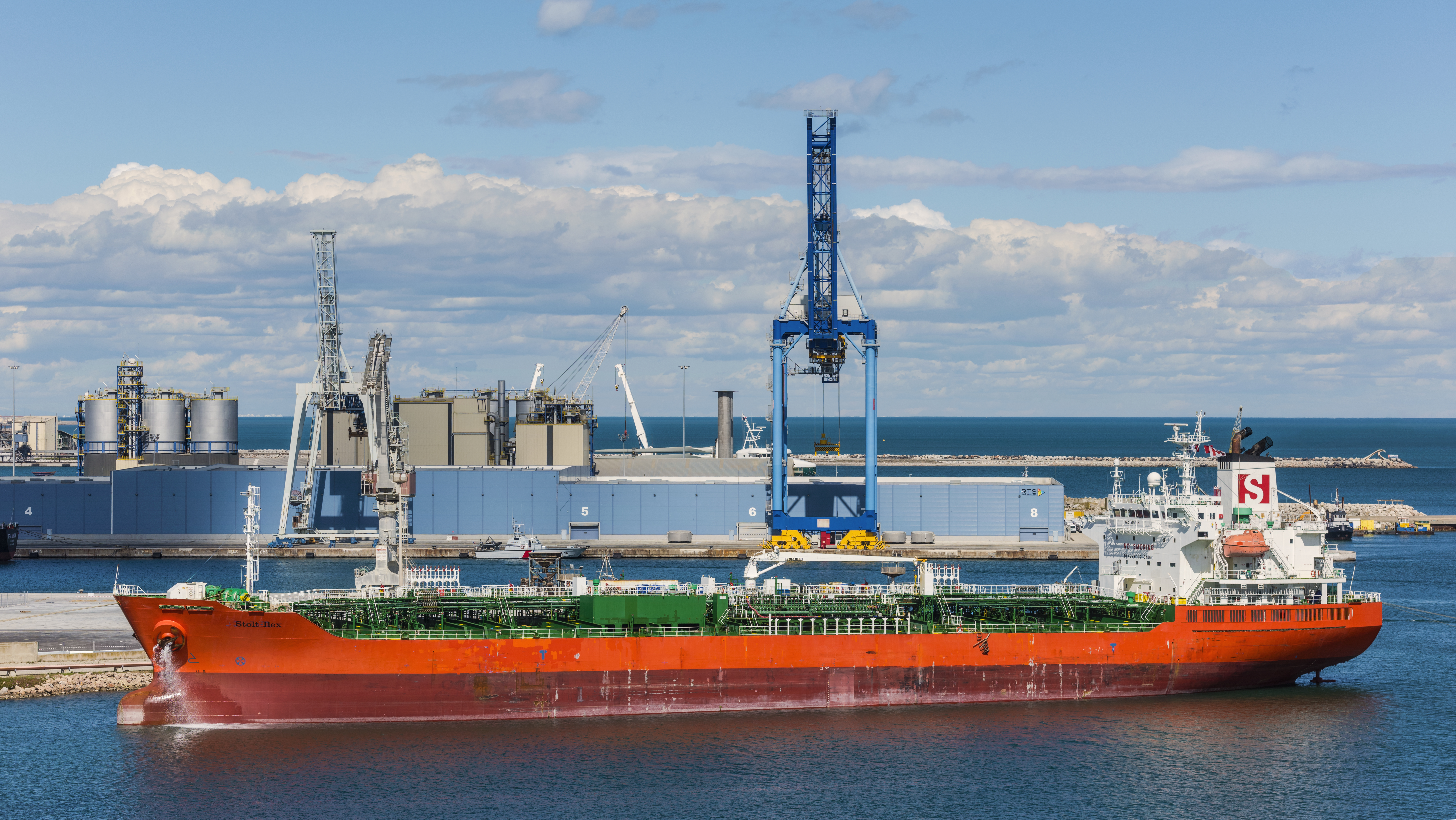 Stolt Ilex (ship, 2010), in the Harbour of Sète. Taken from the top of the lighthouse. Hérault France.